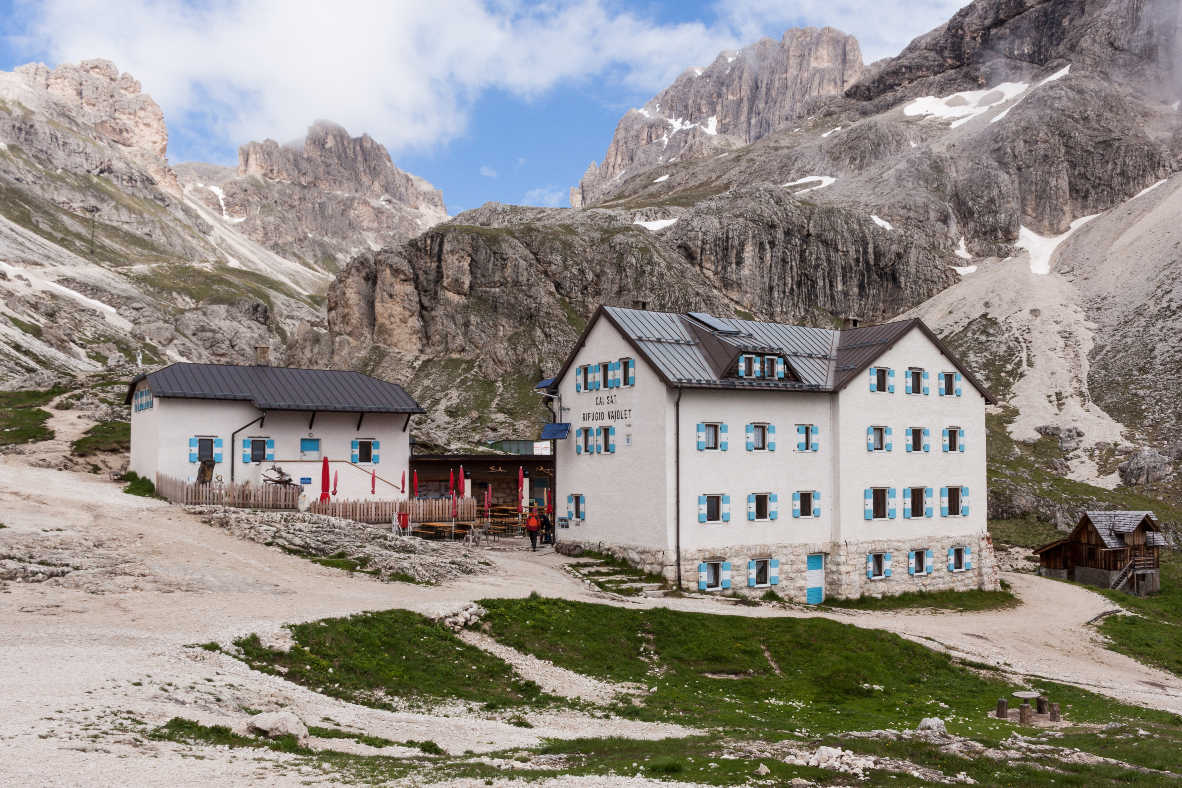 The Vajolet refuge is located at the Vajolet towers in the north italian dolomites. It was built by the Leipzig section of the DÖAV.